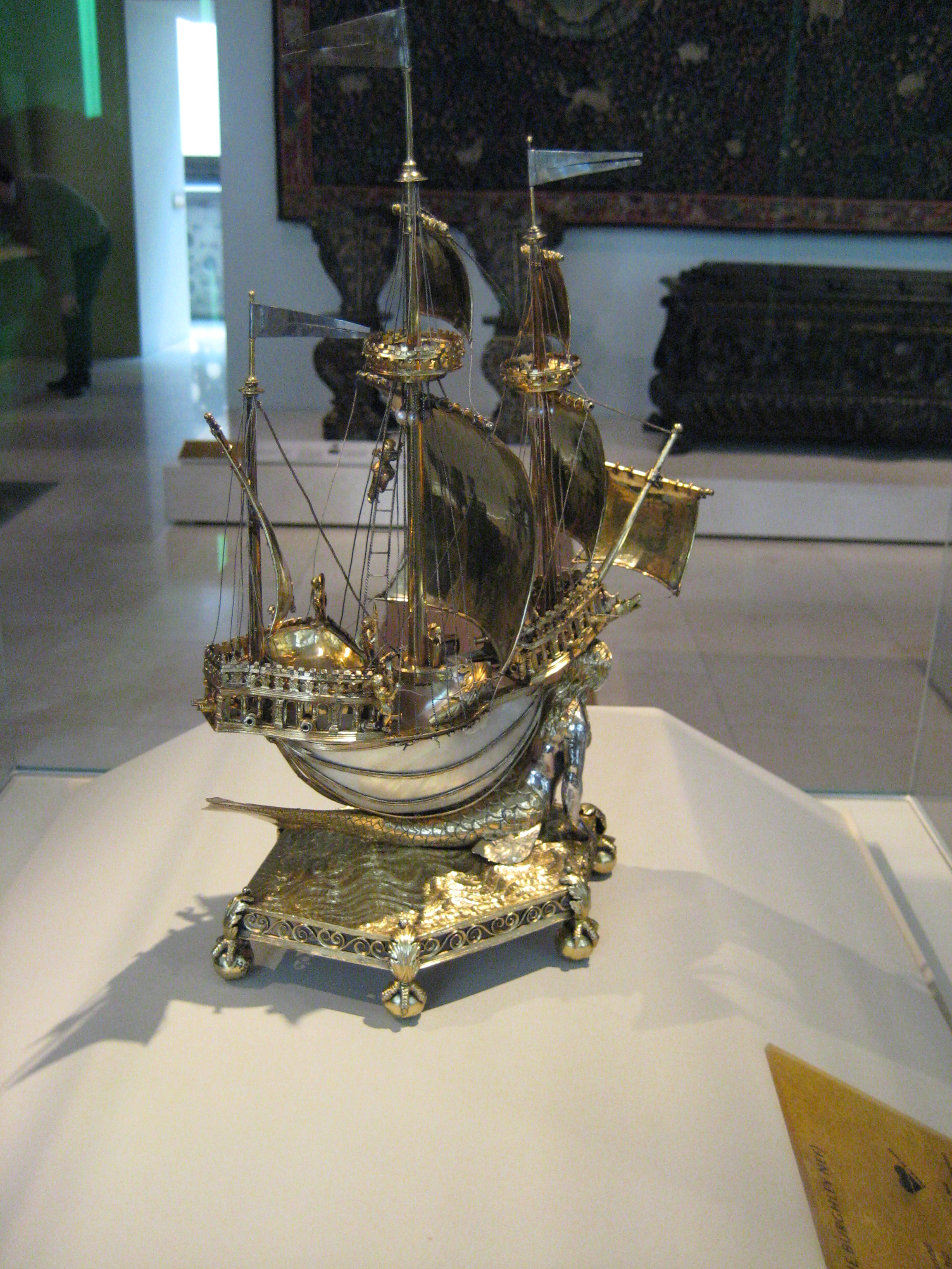 Salt Cellar (The Burghley Nef) 1527-8 France, Paris Nautilus shell with gilded silver mount From Burghley House, near Stamford (Lincolnshire) Here a nautilus shell has been used for a salt cellar in the form of a ship (nef in French). By using the theme of a ship, the artist played on the maritime source of both salt and shell. Another allusion is to the fictional lovers Tristan and Isolde, who can be seen playing chess near the mast. The nef would have been placed in front of the guest of honour, with the salt in a small bowl on the deck. Supported by The Art Fund (Cochrane Trust) and the Goldsmiths' Company Collection ID: M.60-1959 This photo was taken as part of Britain Loves Wikipedia in February 2010 by Alison Bean.